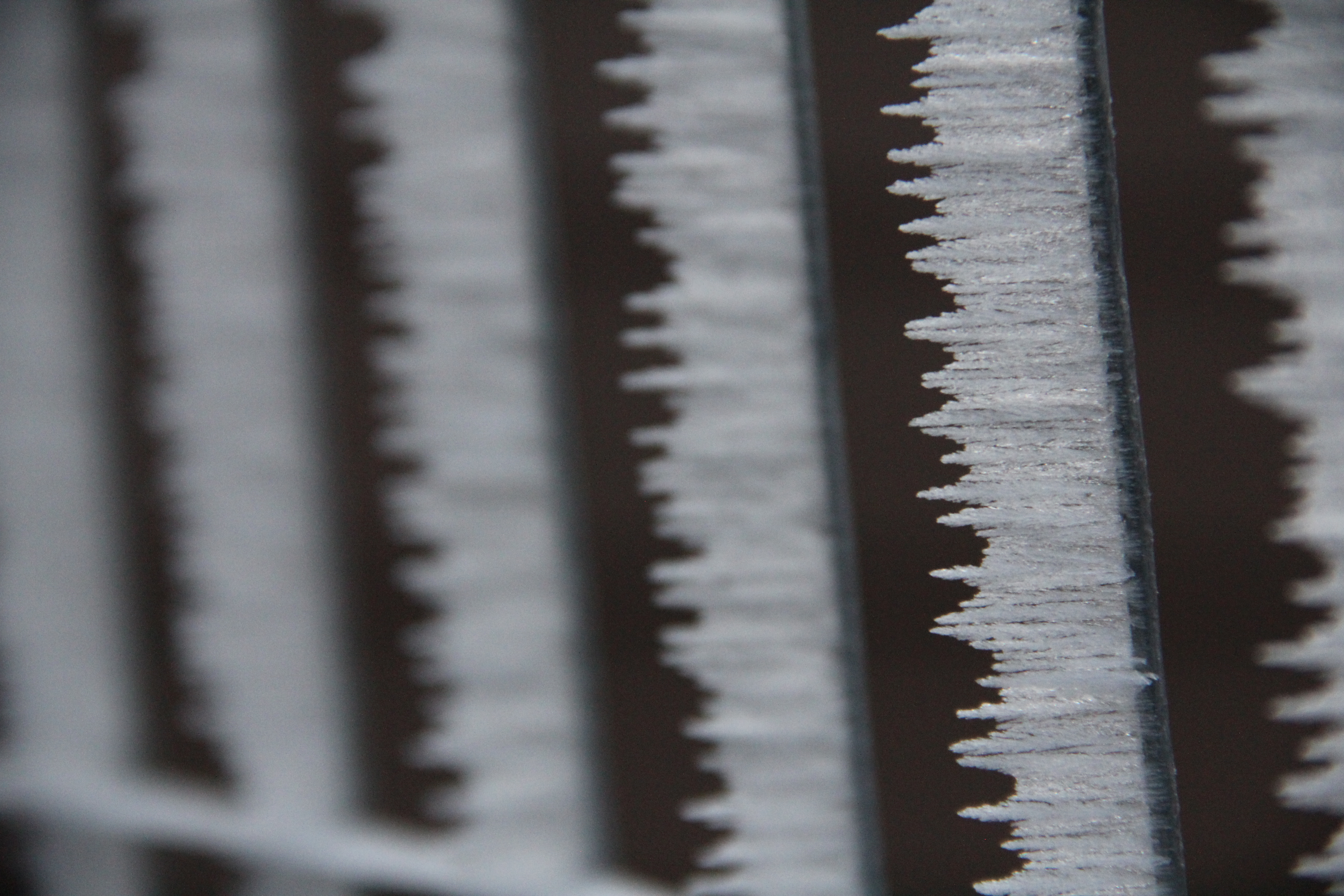 A rare total inversion was seen today by visitors to Grand Canyon National Park. This view is from the village area on the South Rim. Freezing fog and wind created delicate frost patterns throughout Grand Canyon. Dec. 2nd, 2013. Photo by Erin Whittaker.